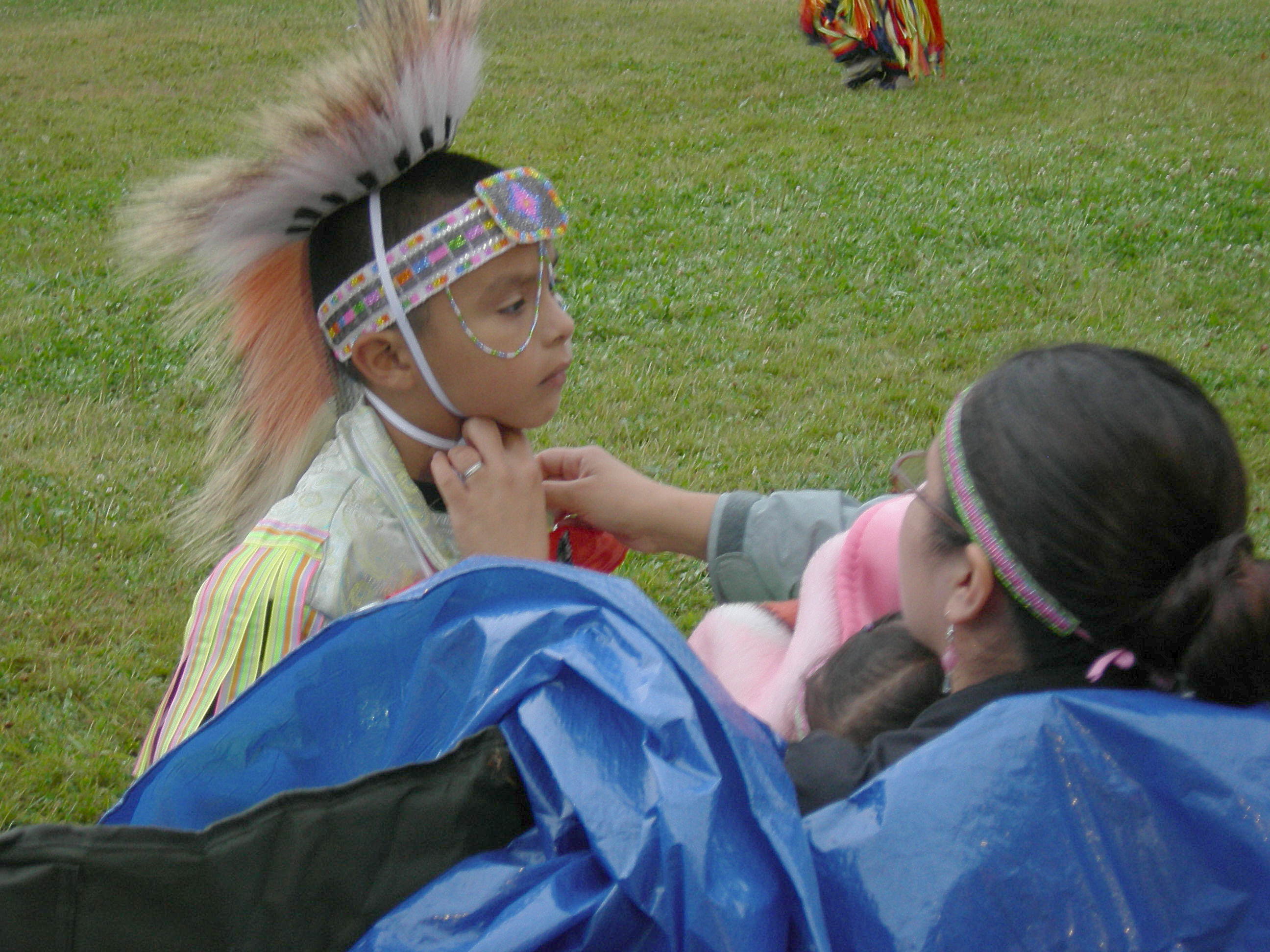 Woman adjusting young boy's headdress, Seafair Indian Days Pow Wow, Daybreak Star Cultural Center, Seattle, Washington. The event is part of Seafair (a series of annual summer events in Seattle) and under the aegis of the United Indians of All Tribes Foundation.